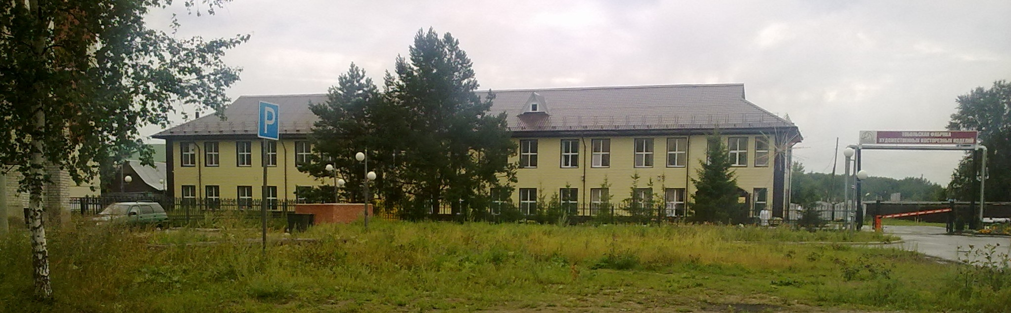 Tobolsk factory of art bone carving products, Tobolsk city, Russia